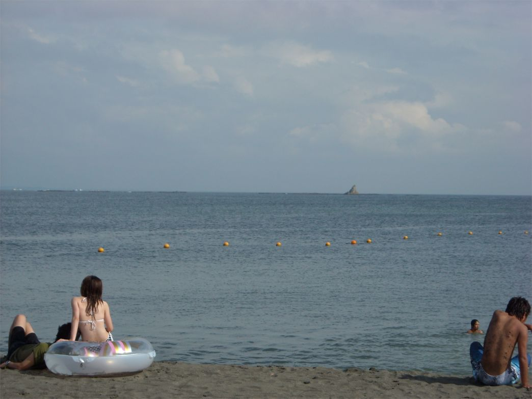 Southern Beach Chigasaki